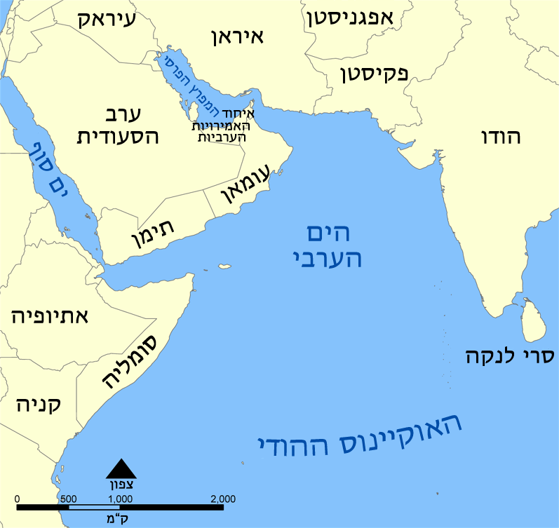 A map showing the location of the Arabian Sea in the Indian Ocean. Created by NormanEinstein, Jully 19, 2005.